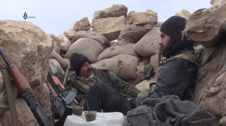 Latakia: from the Syrian opposition held areas in Latakia countryside 16-4-2017